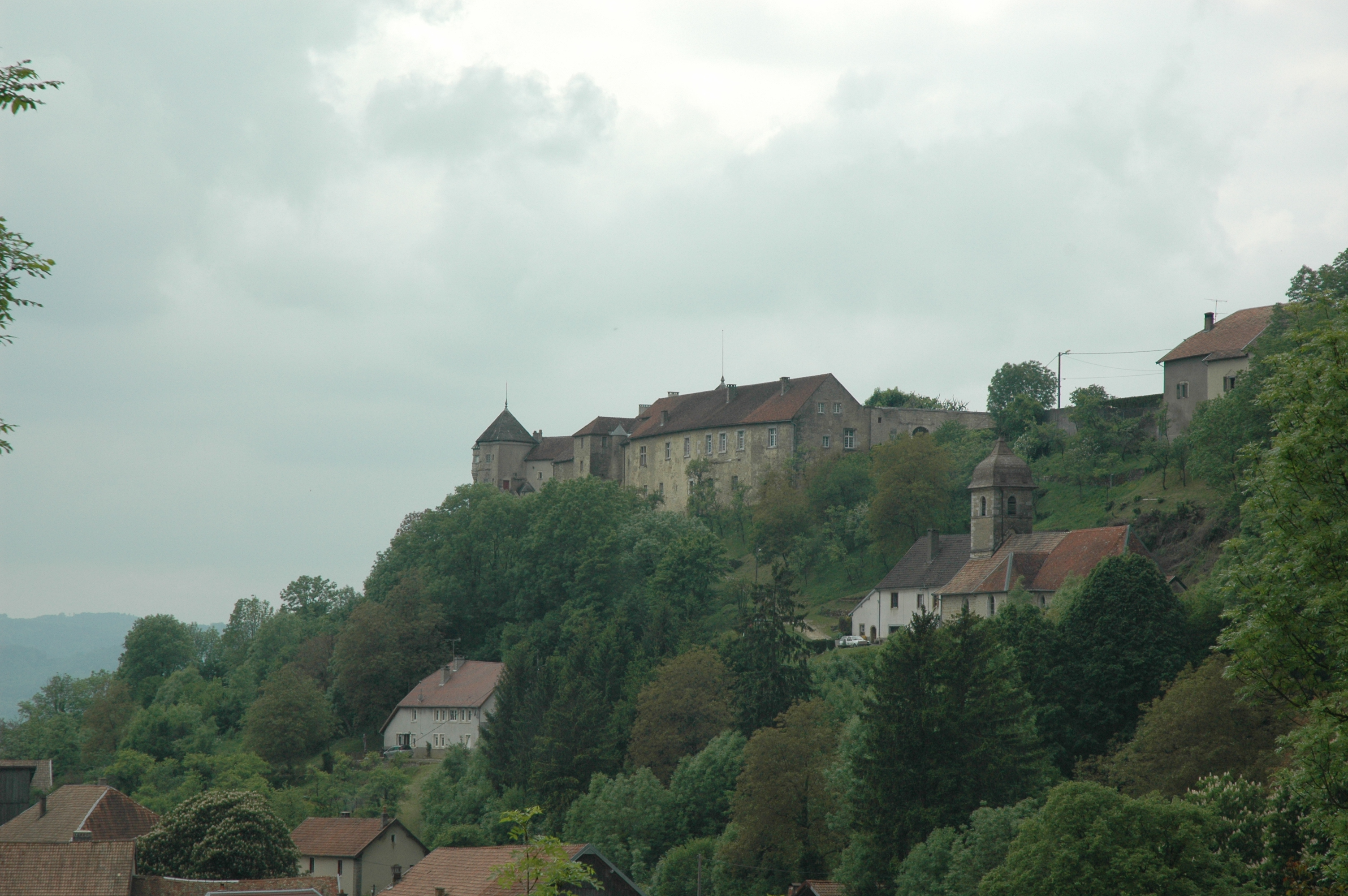 Belvoir